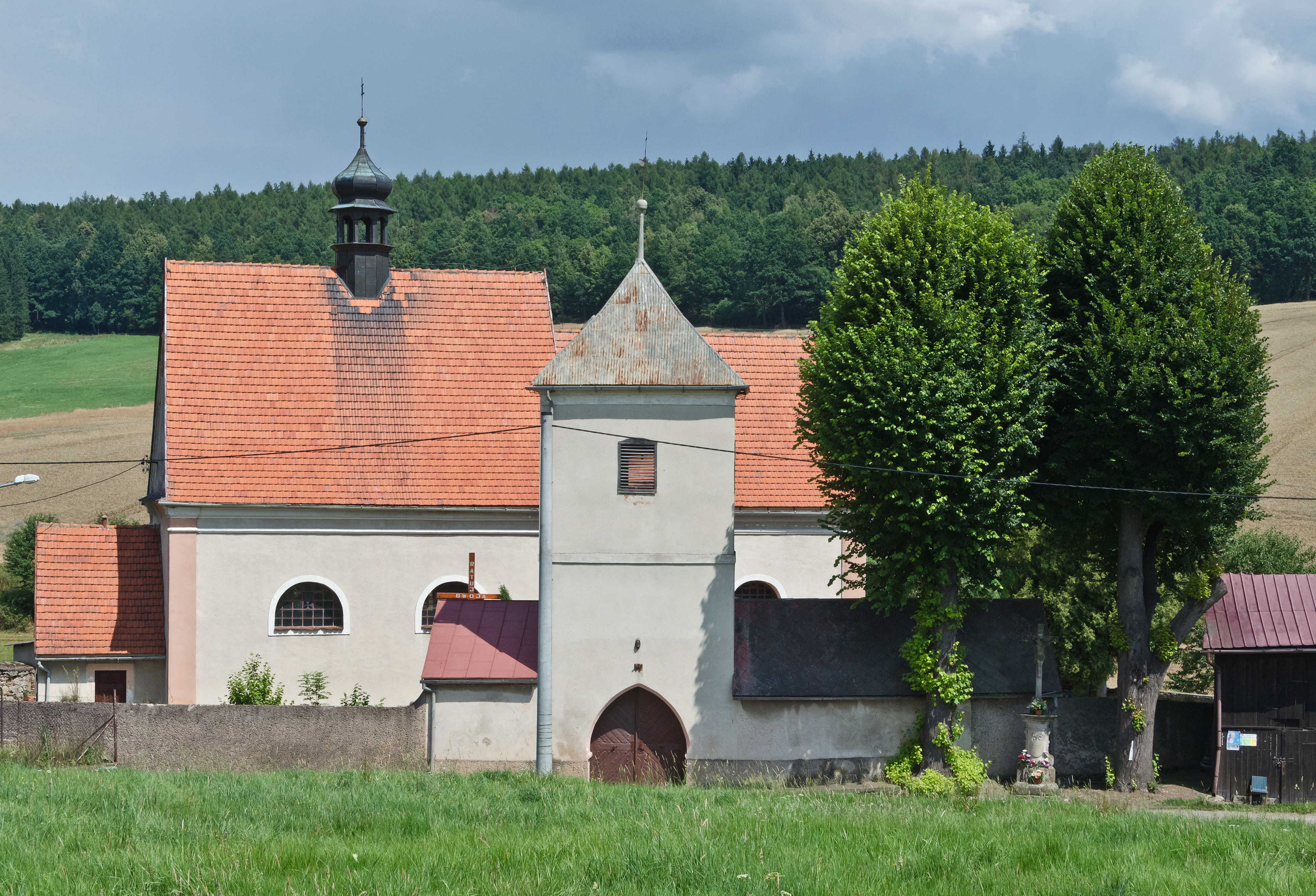 Saints Peter and Paul church in Raszków